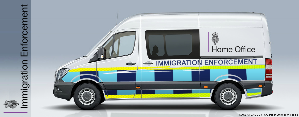 Mercedes-Benz Sprinter Cell Van used by Immigration Enforcement